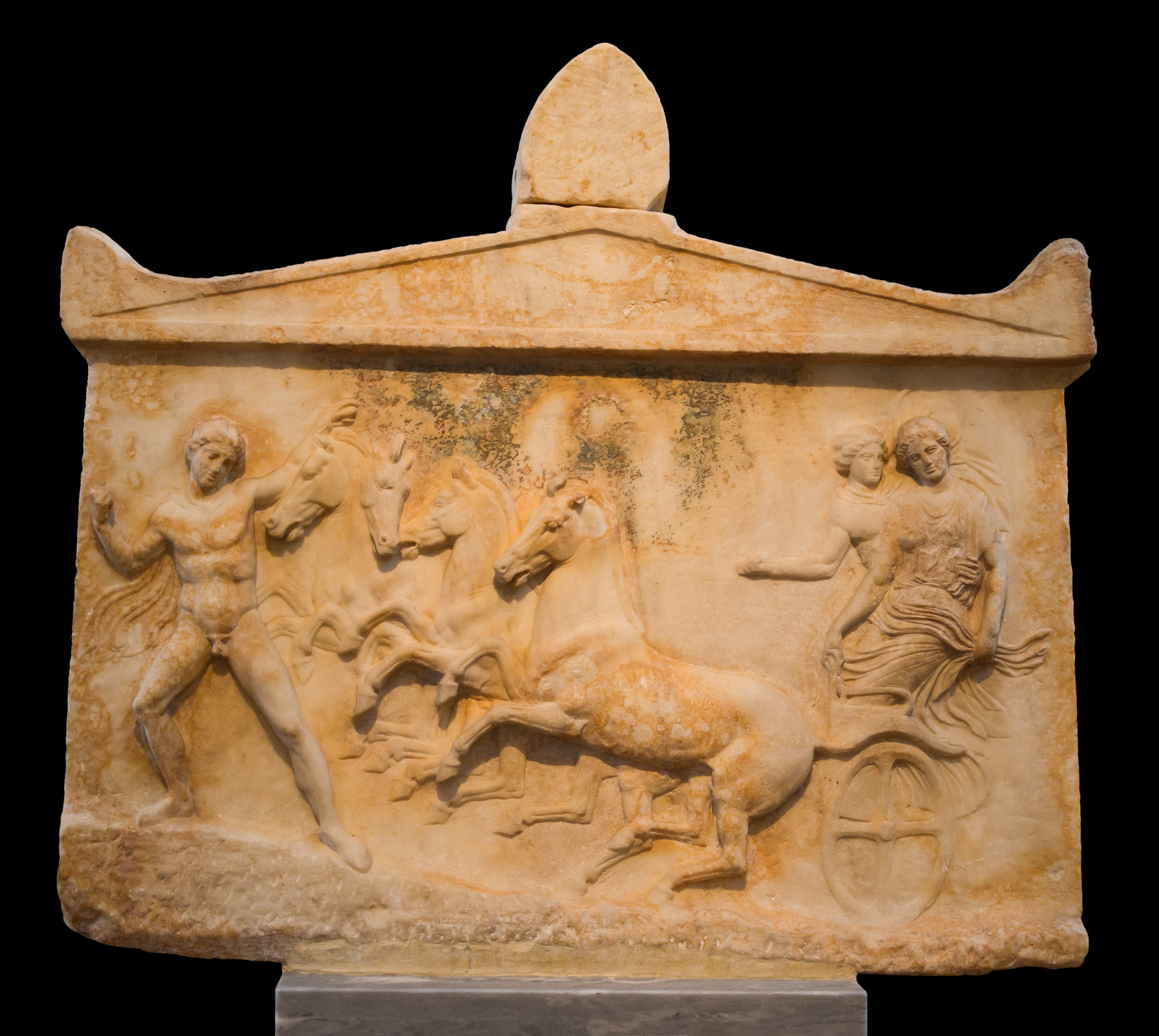 Votive amphiglyphon. Pentelic marble. Found in Neo Phaleron, Attica. This face depicts the abduction of the nymph Basile from Hades by the hero Echelos. Hermes, holding a whiplash in his right hand, drives the chariot that transports the two figures. "Hermes", Echelos" and "Basile" are names inscribed on the epistyle. This was dedicated by Kephisodotos, son of Demogenes. ca.410 BCE. N°1783